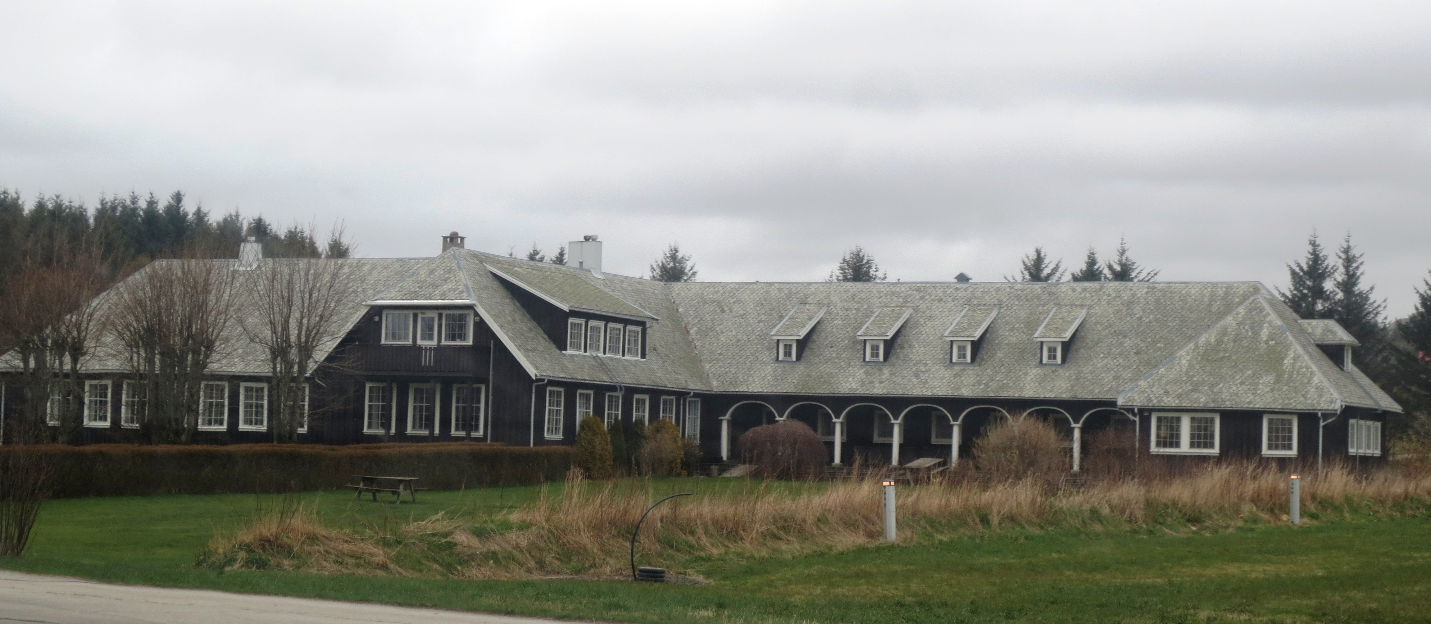 The former Lista Air Force Station (Lista flystasjon) in Farsund municipality, Norway